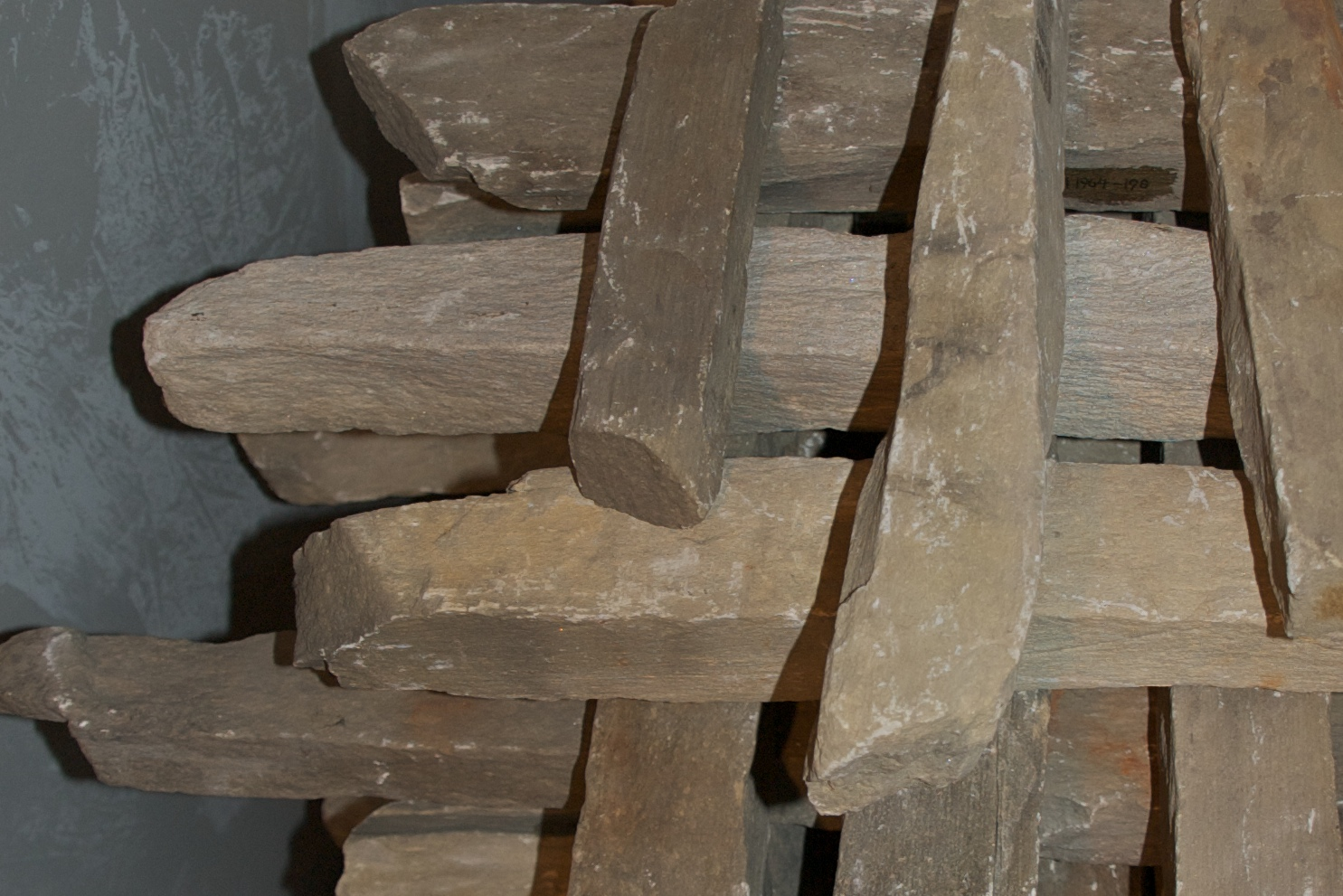 Sharpening stones from Eidsborg, Telemark, Norway.